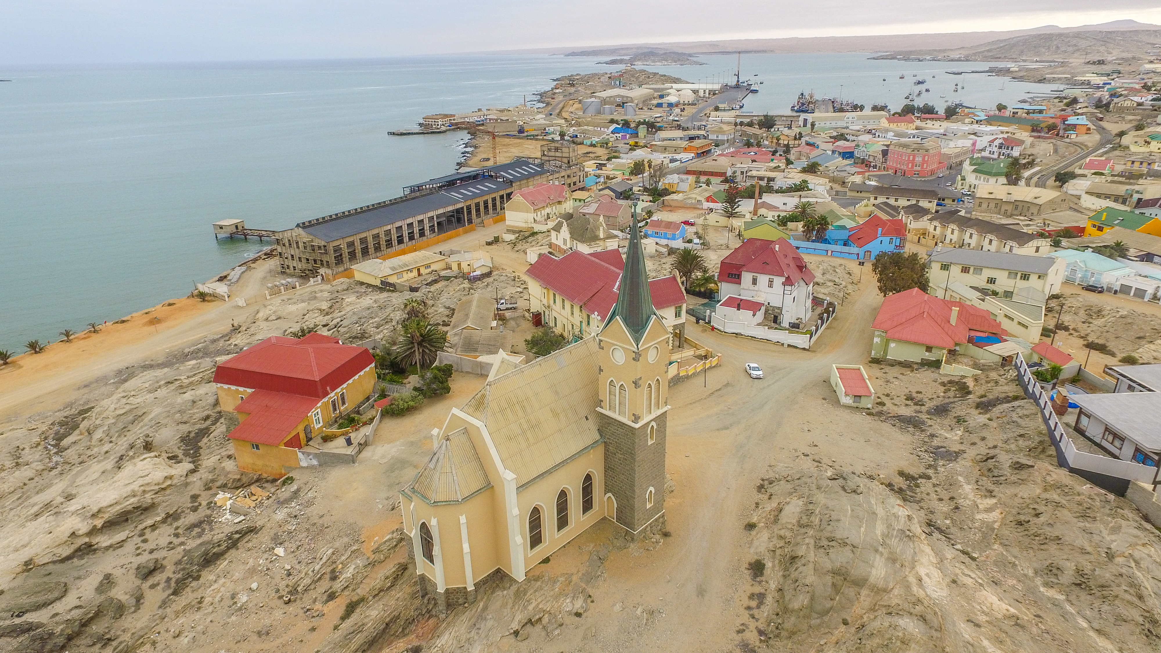 Felsenkirche, a Lutheran church built in 1912 in Lüderitz.